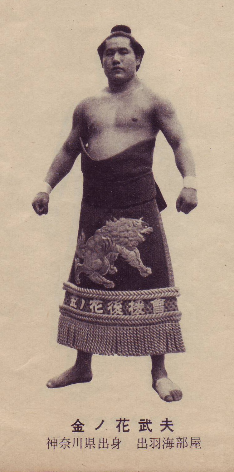 Kanenohana Takeo (Sumo wrestler from Japan. Komusubi). taken in 1958, or before that.